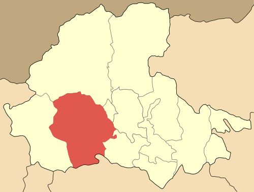 Locator map of Edessas municipality (Δήμος Έδεσσας) at Pellas perfecture, Macedonia, Greece.